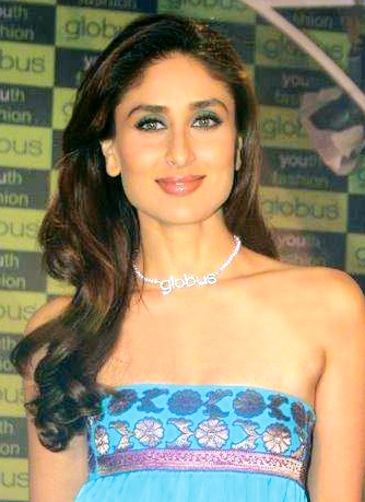 Indian actress Kareena Kapoor at the launch of Globus' clothing chain